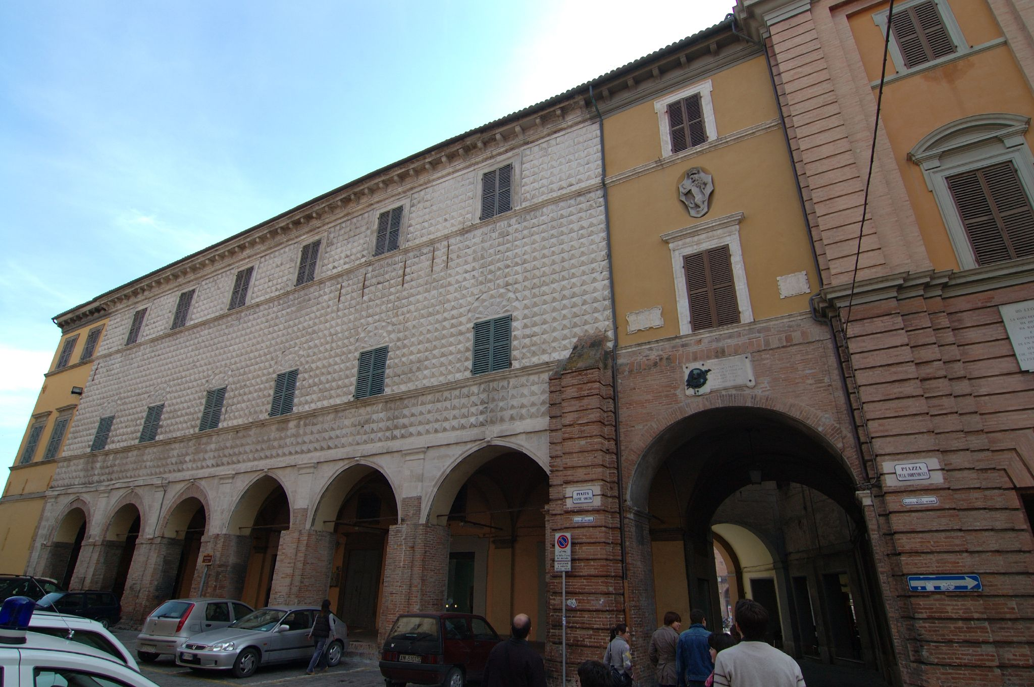 Jesi, Marche, Italia